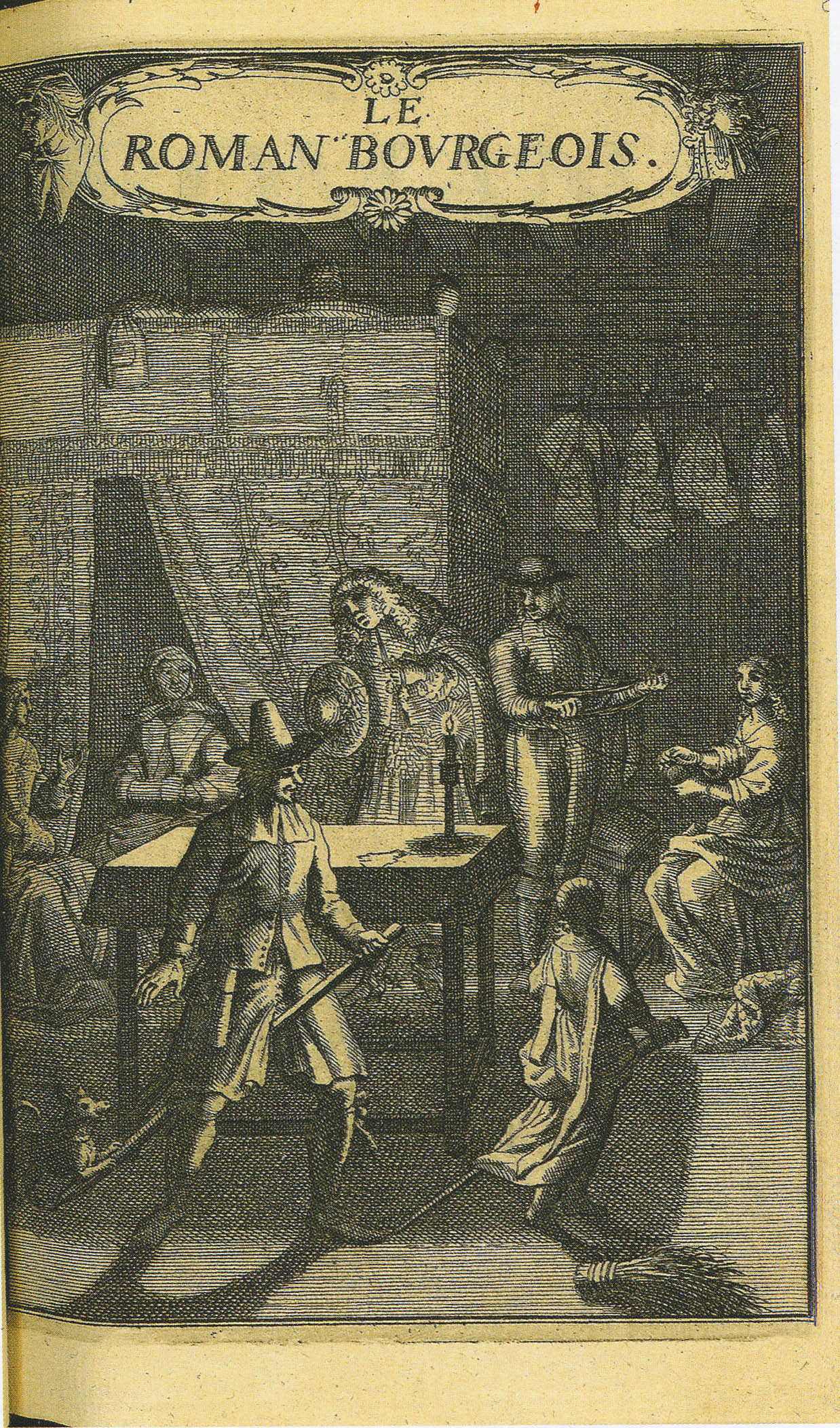 Image from old book (Furetière: Le Roman Bougrois, 1666)